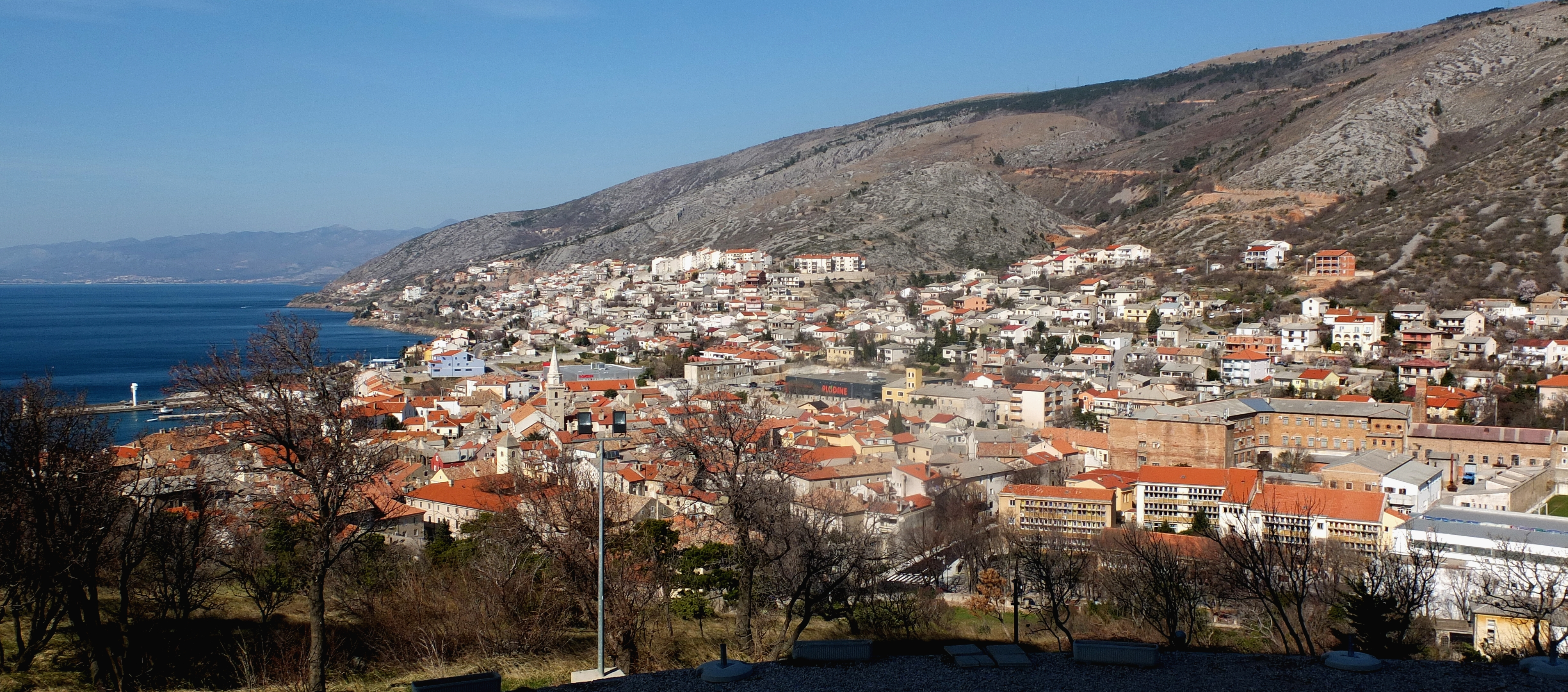 South view of the Town Senj, Croatia, from the Nehaj Fortress